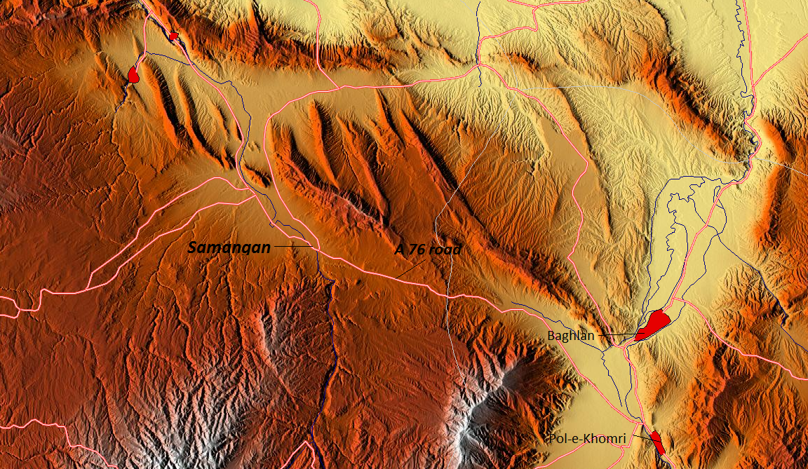 Map of Samangan Province and Baghlan Province, Afghanistan